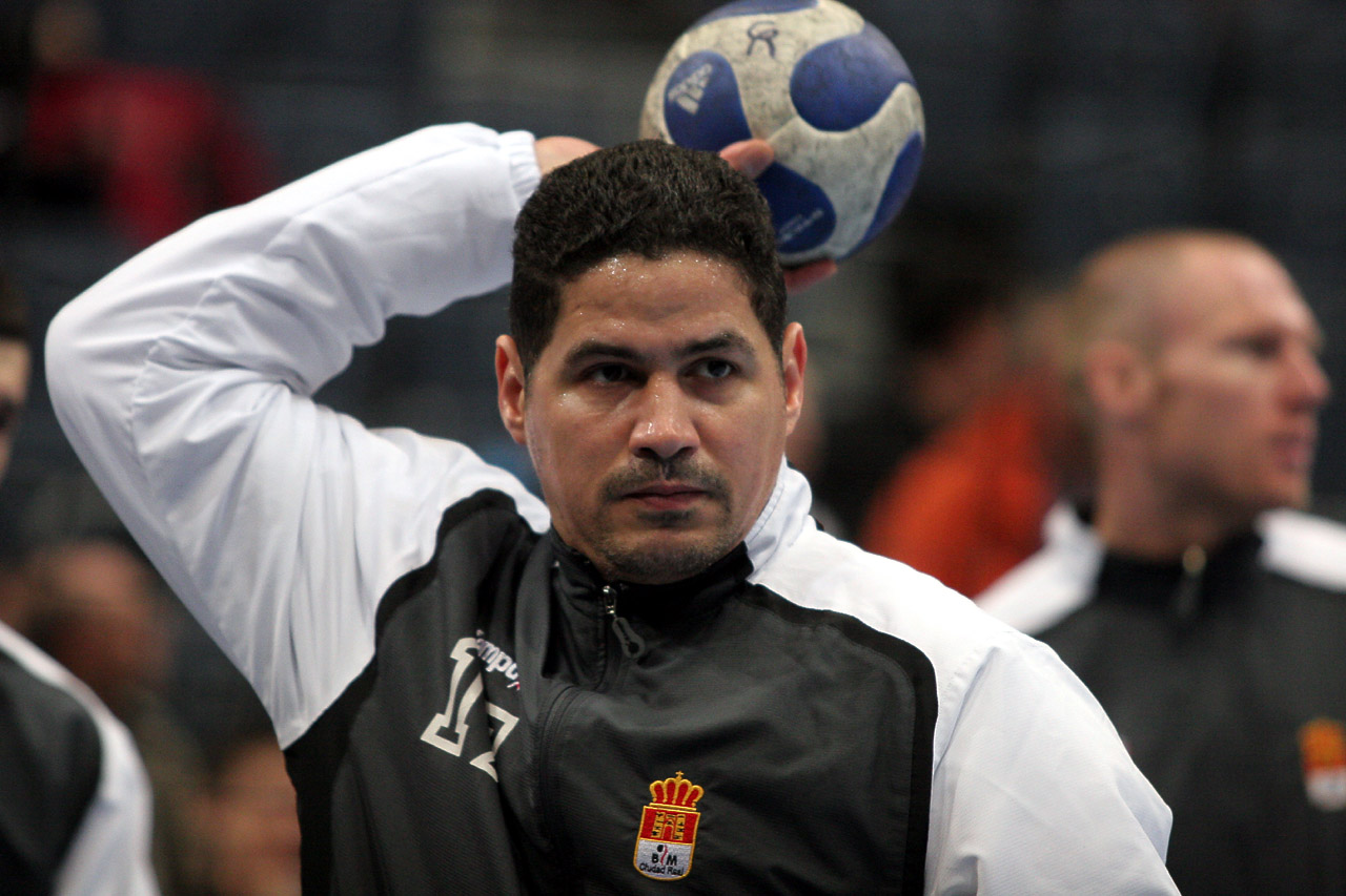 Rolando Uríos, handball player of BM Ciudad Real (Spain), in the Kölnarena prior the champions league game VfL Gummersbach vers. BM Ciudad Real on February 20th, 2008.